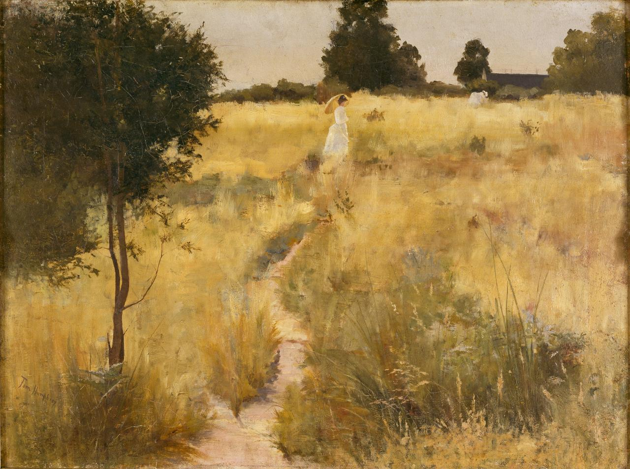 Summer Walk, oil on canvas, 45.8 × 61.3 cm.